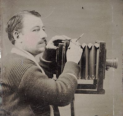 Solomon D. Butcher, ca. 1886. This image represents a significant cropping of the original photo, at File:Solomon D. Butcher 1886.jpg